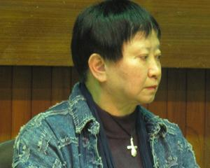 Chang Hsiao-feng, Taiwanese literary, National Yang-Ming University Education Center for Humanities and Social Sciences professor, Republic of China 8rd legislative.